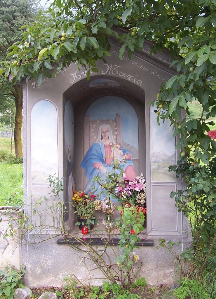 Shrine/Niche in loc. Giarelli. Nadro, Ceto, Val Camonica.